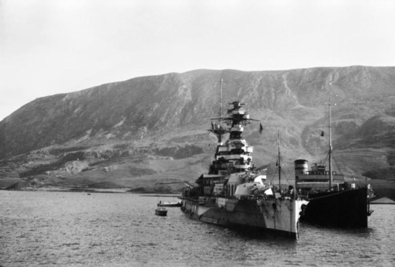 The Royal Navy during the Second World War HMS BARHAM oiling in Suda Bay, Greece.